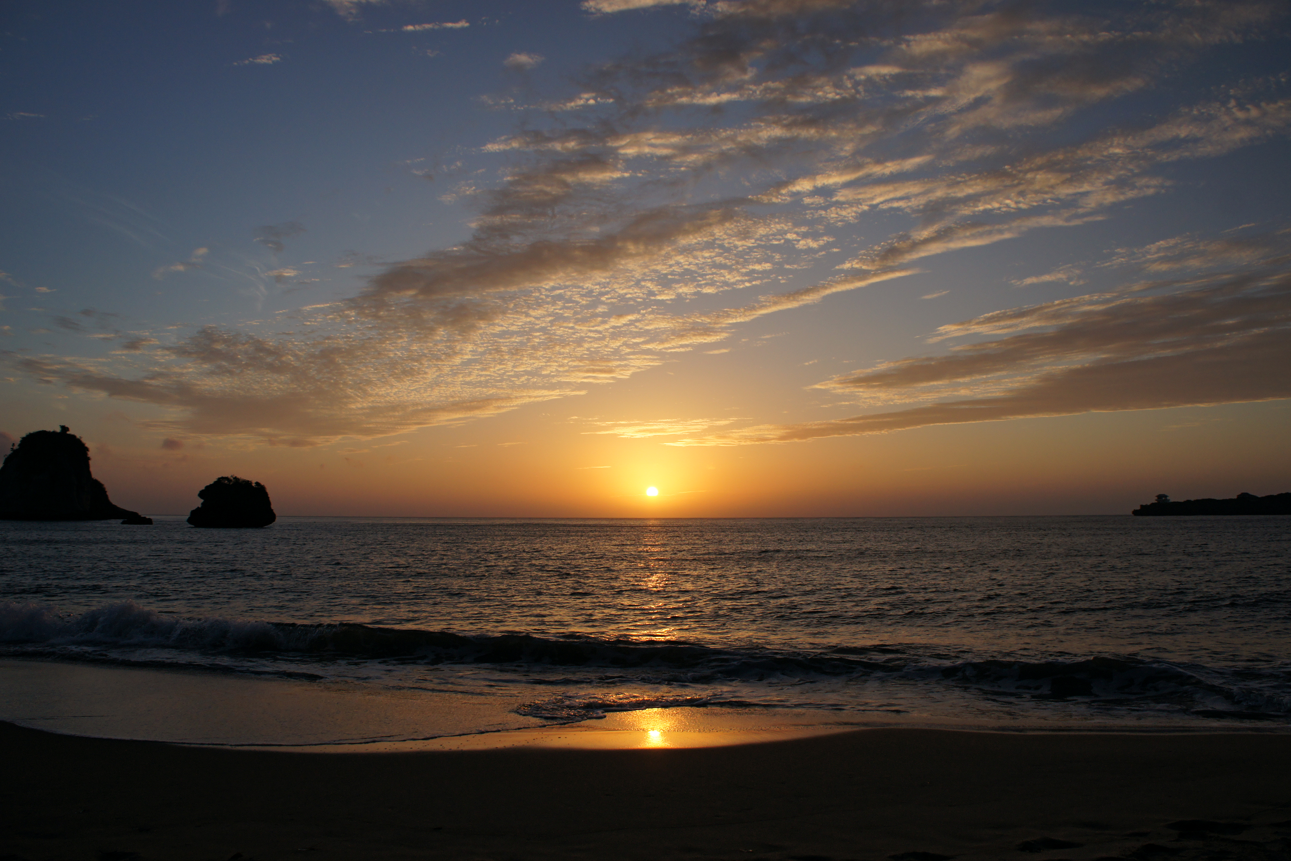 Tudumari-no-hama ( Tsukigahama Beach ) in Iriomote Island, Taketomi Town, Okinawa Prefecture, Japan.